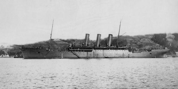 IJN despatch vessel ANEGAWA. ex-Russinan cruiser ANGARA.